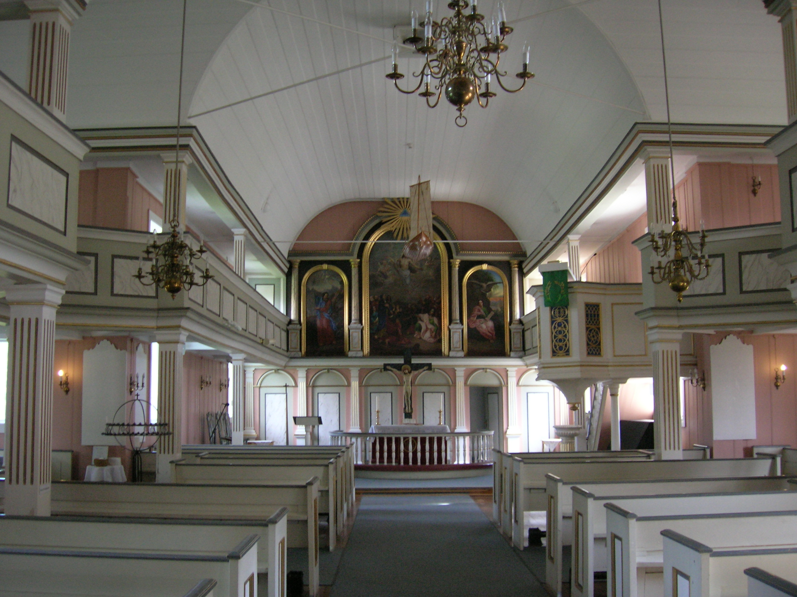 Mo church in Mo i Rana, municipality, Nordland, Norway. Interior of the church. Photo June 10, 2007 with a Nikon Coolpix 5600 5,1 Megapixel camera.